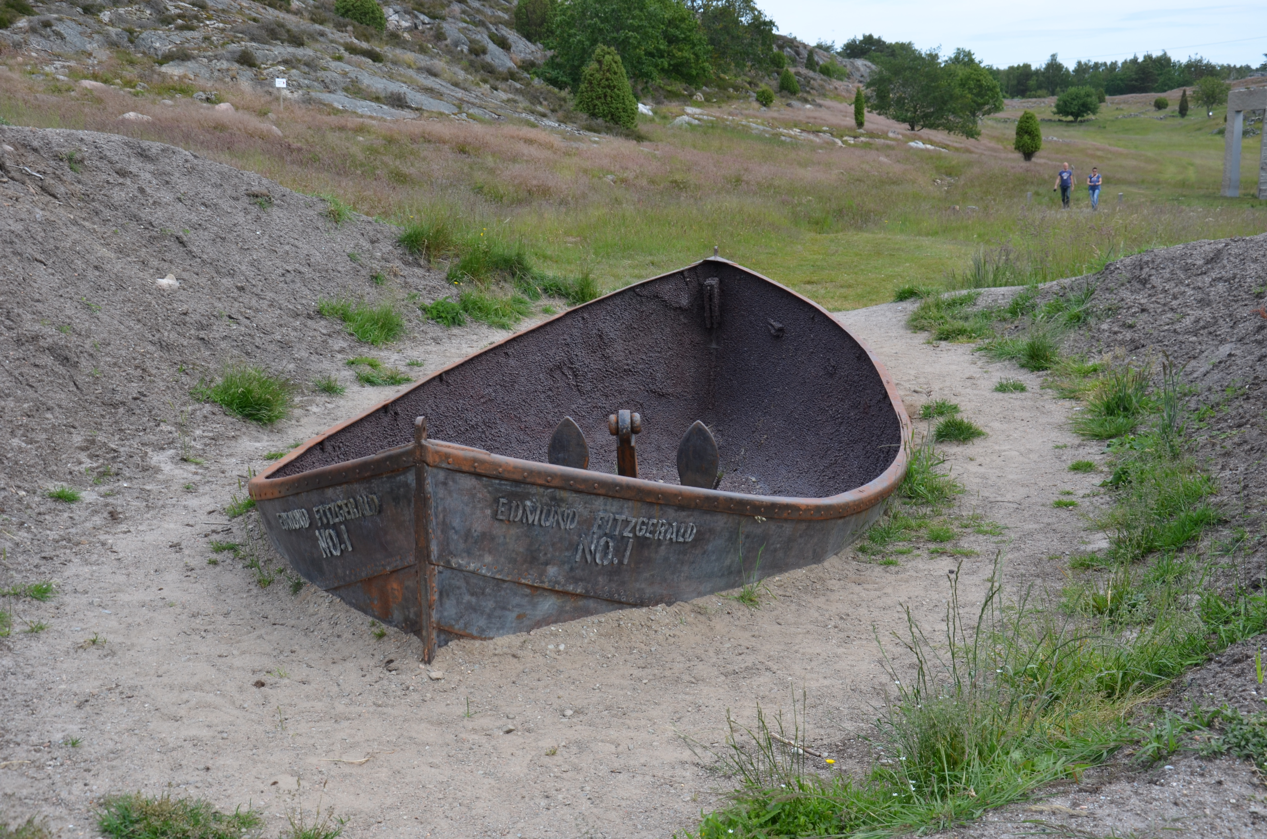 You gotta go out, you don´t have to come back, an installation at "Skulptur i Pilane" Sculpture Park at Tjörn in Sweden, 2011, by Keith Edmier. "My sculpture at Pilane takes the form of a Viking age boat burial. I am connecting this custom to a ship-wreck from my own time and place - The S S Edmund Fitzgerald - an iron ore freighter ship that went down in the waters of Lake Superior in Noirth America on November 1oth, 1975." Keith Edmier in the booklet "Skulptur i Pilane 2011